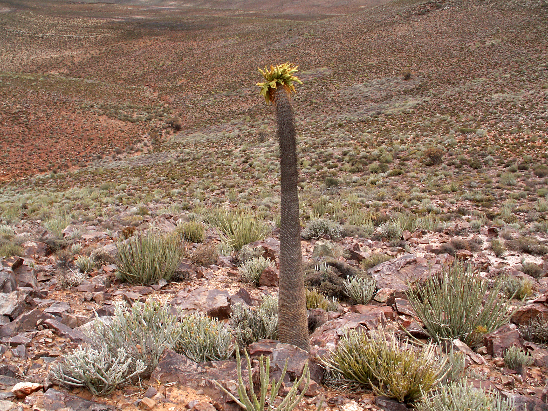 Halfmens, Half a man Pachypodium namaquanum (Wyley ex Harv.) Welw., Richtersveld National park, Northern Cape, South Africa